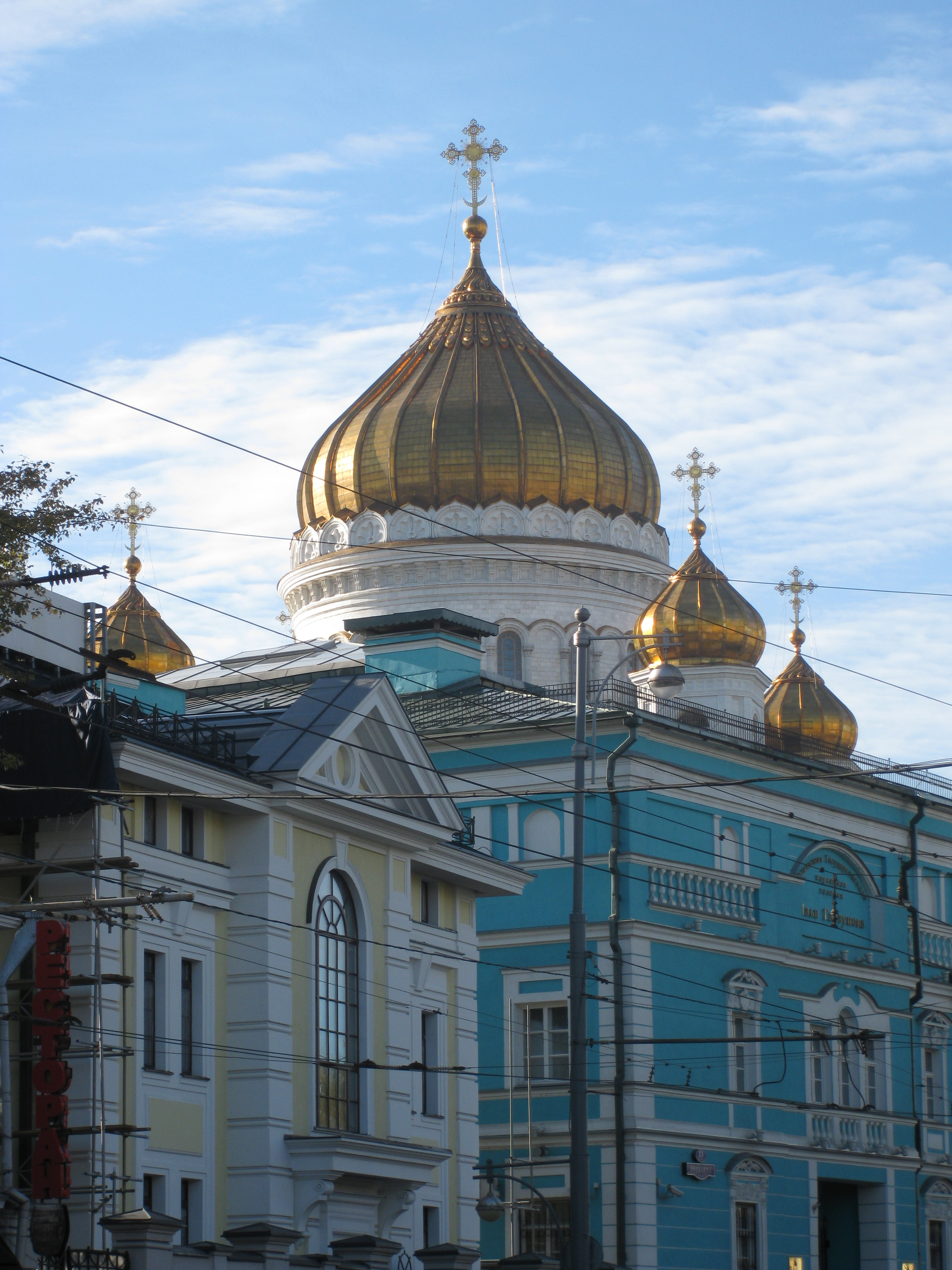 A street near the Cathedral of Christ the Saviour רחוב בסמוך לקתדרלת מוסקבה